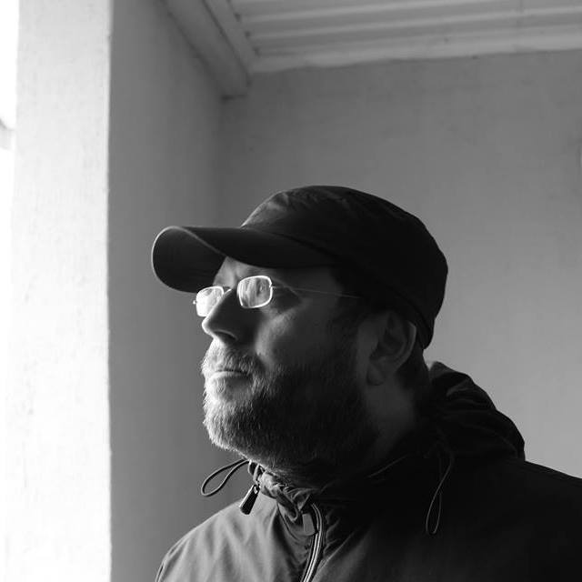 David's photo